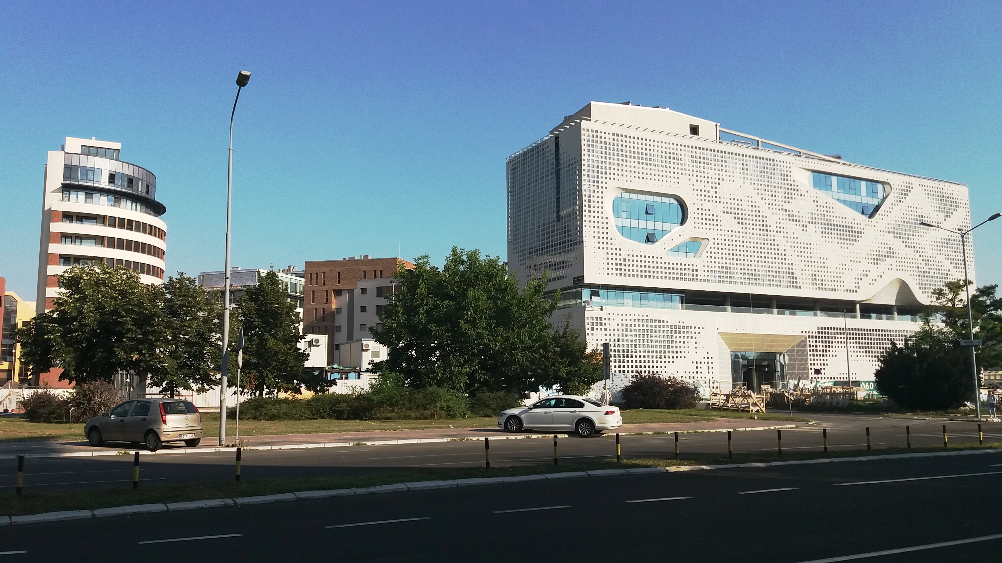 Chinese Cultural Center, "Trešnjin cvet" Tower, Block 11a, New Belgrade